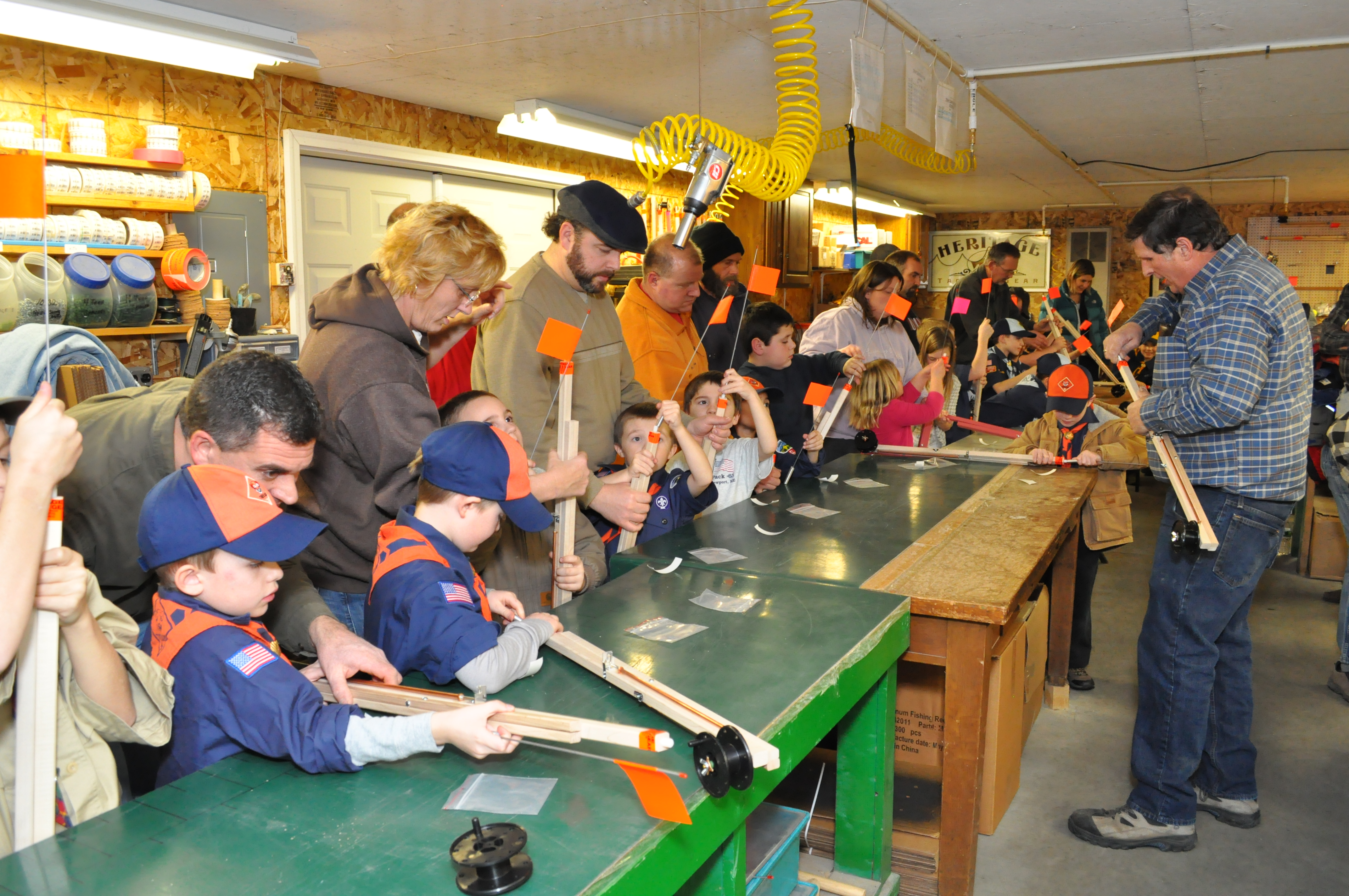 Cub Scouts building ice fishing traps